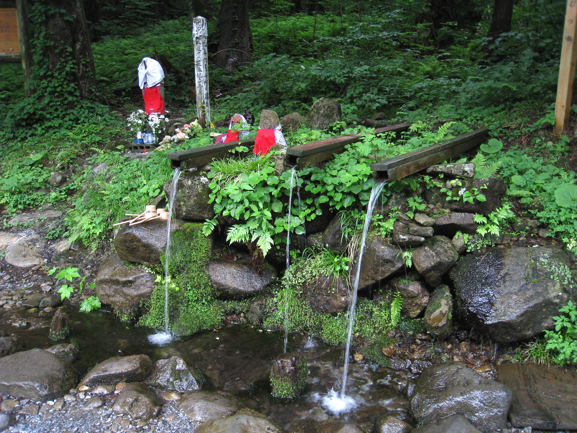 Cold water of Mount Osore, This photo taken in June 24, 2008